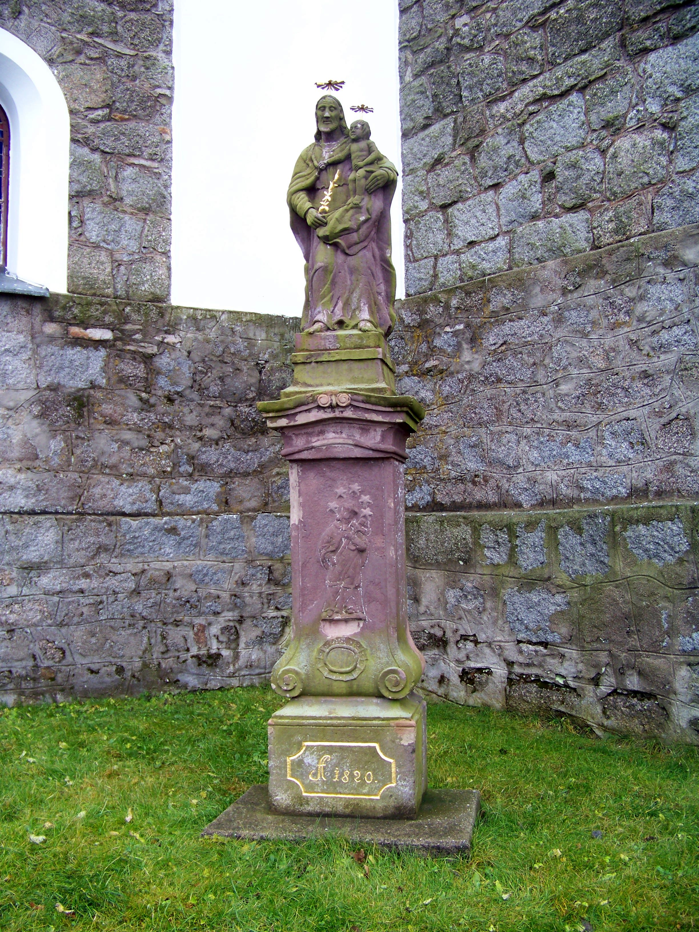 Příchovice near Kořenov, Jablonec nad Nisou District, Liberec Region, the Czech Republic. Statue of St. Joseph near church of Saint Vitus. The plinth is decorated with relief of St. John Nepomucene.